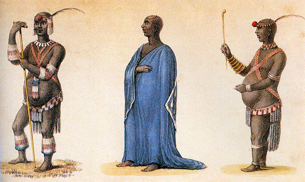 "Dingane in Ordinary and Dancing Dresses", by Captain Allen Francis Gardiner.